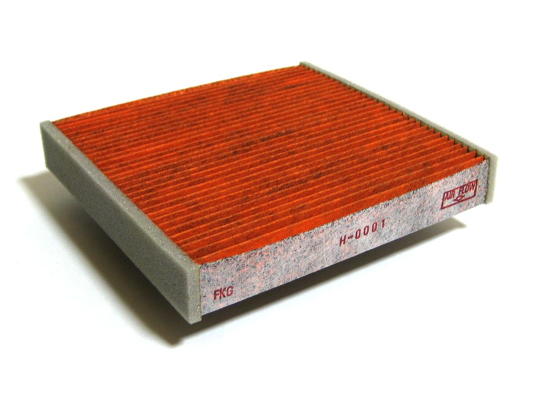 Autobacks Pro Air Conditioner Filter H-0001.